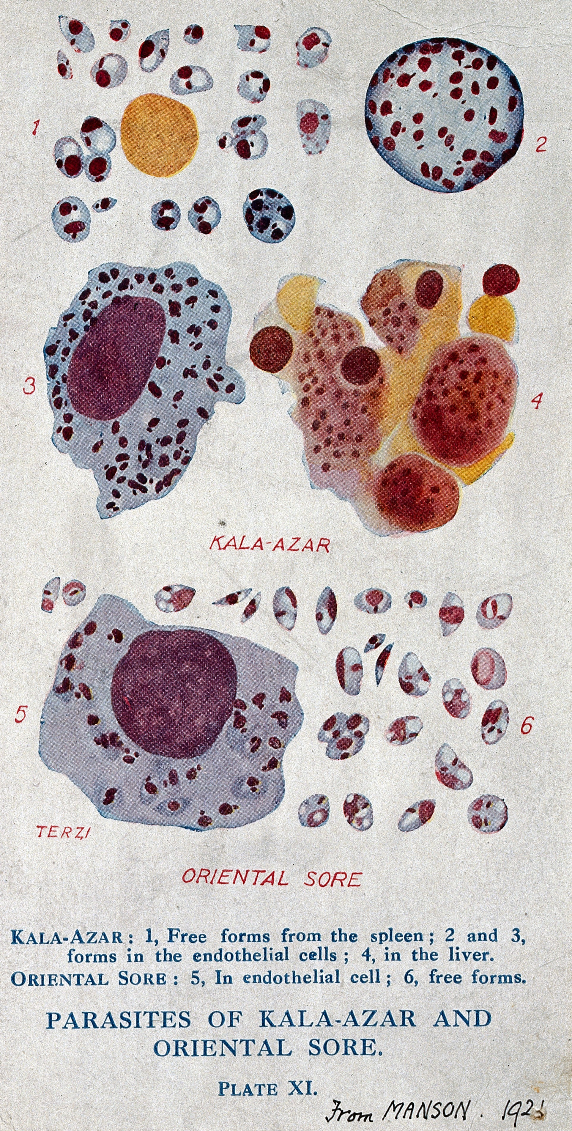 Parasites of the tropical diseases Kala-Azar and Oriental Sore. Colour photomechanical reproduction of a drawing by A.J.E. Terzi, ca 1921. Iconographic Collections Keywords: Amedeo John Engel Terzi